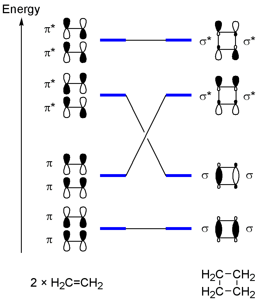 Chemical diagam for explanation of orbitals relation in the Woodward-Hoffman rule.